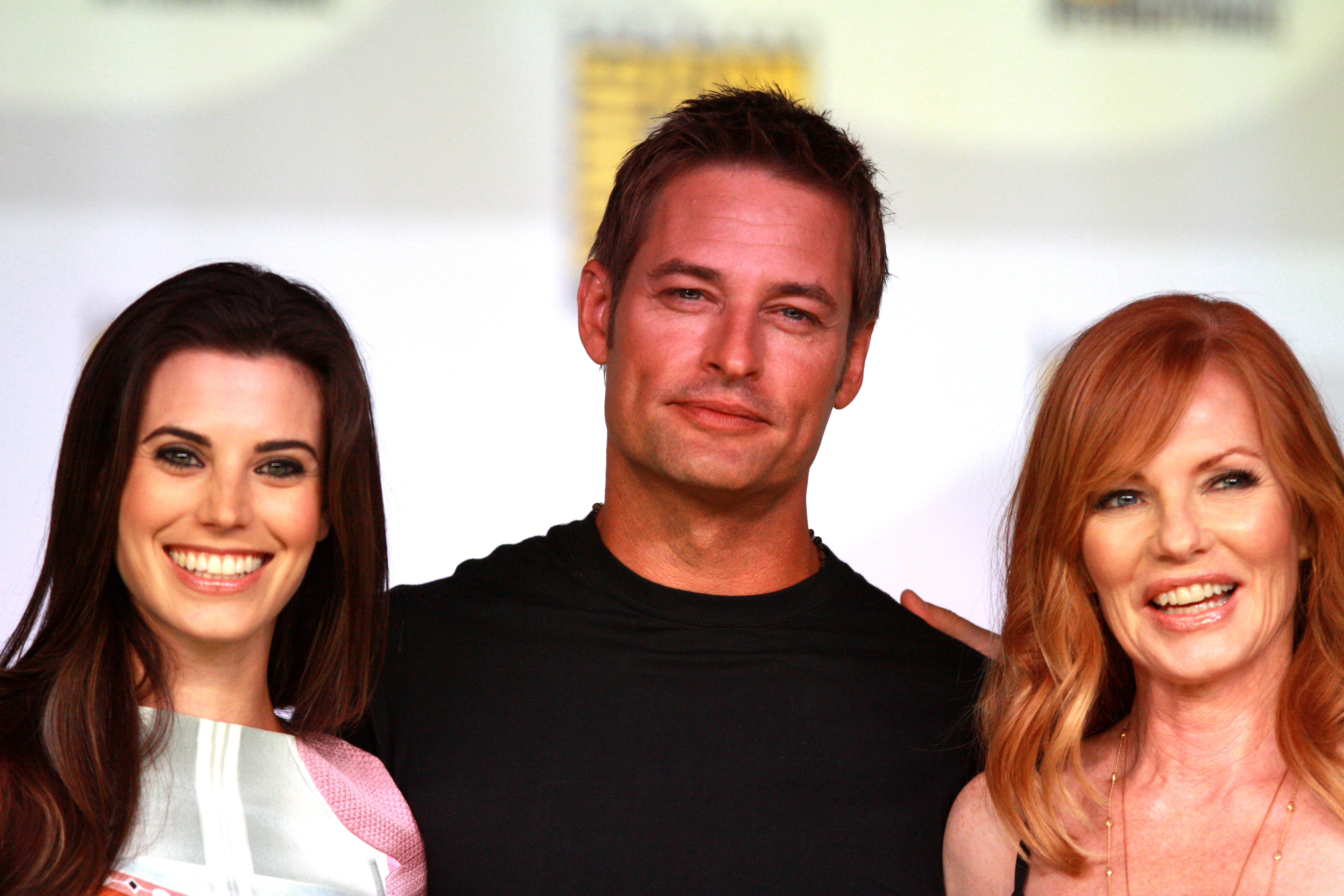 Meghan Ory, Josh Holloway and Marg Helgenberger speaking at the 2013 San Diego Comic Con International, for "Intelligence", at the San Diego Convention Center in San Diego, California.